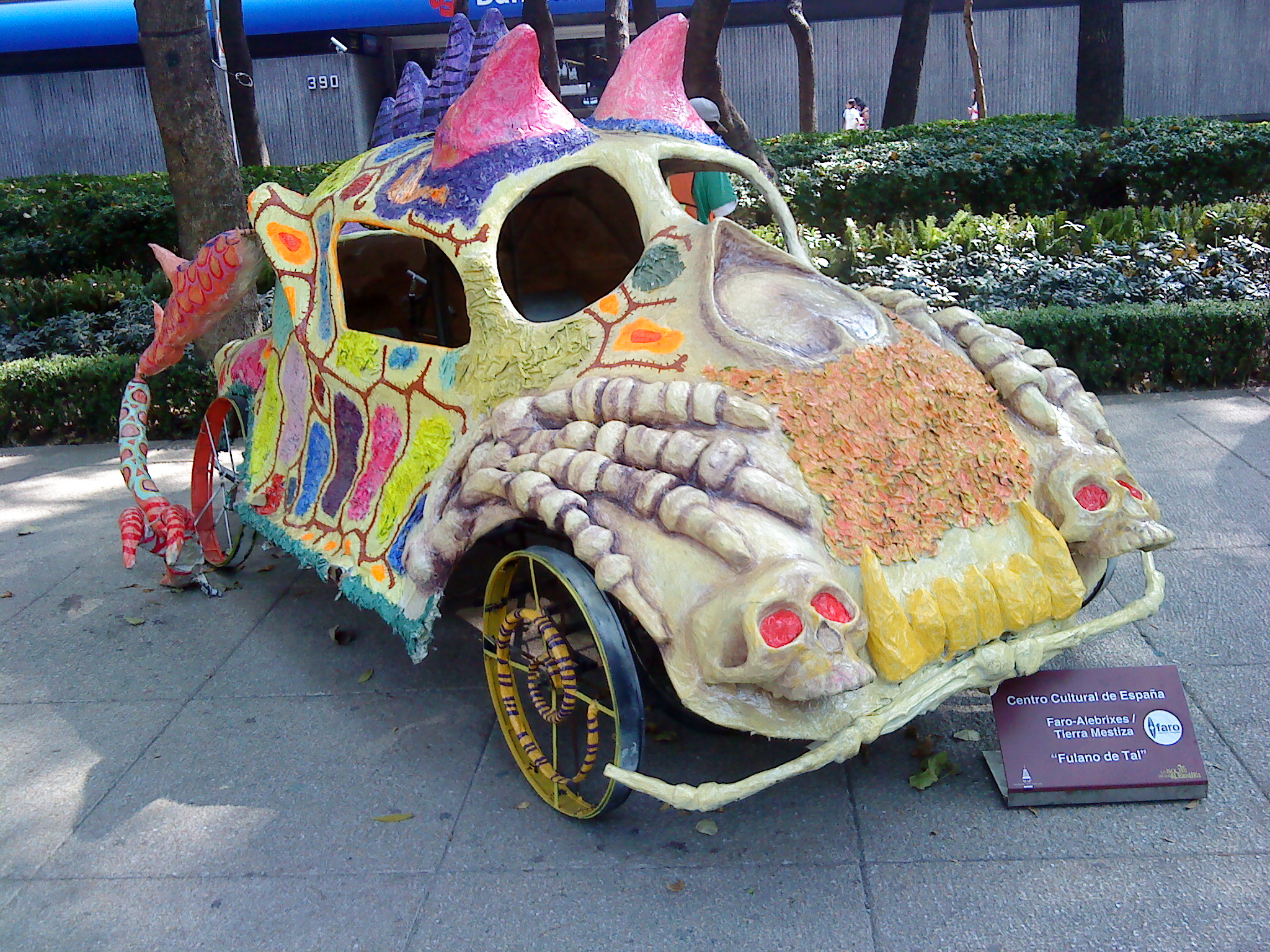 An "Alebrije" from the exhibition in Paseo de la Reforma, Mexico City, with a Volkswagen Beetle shape.